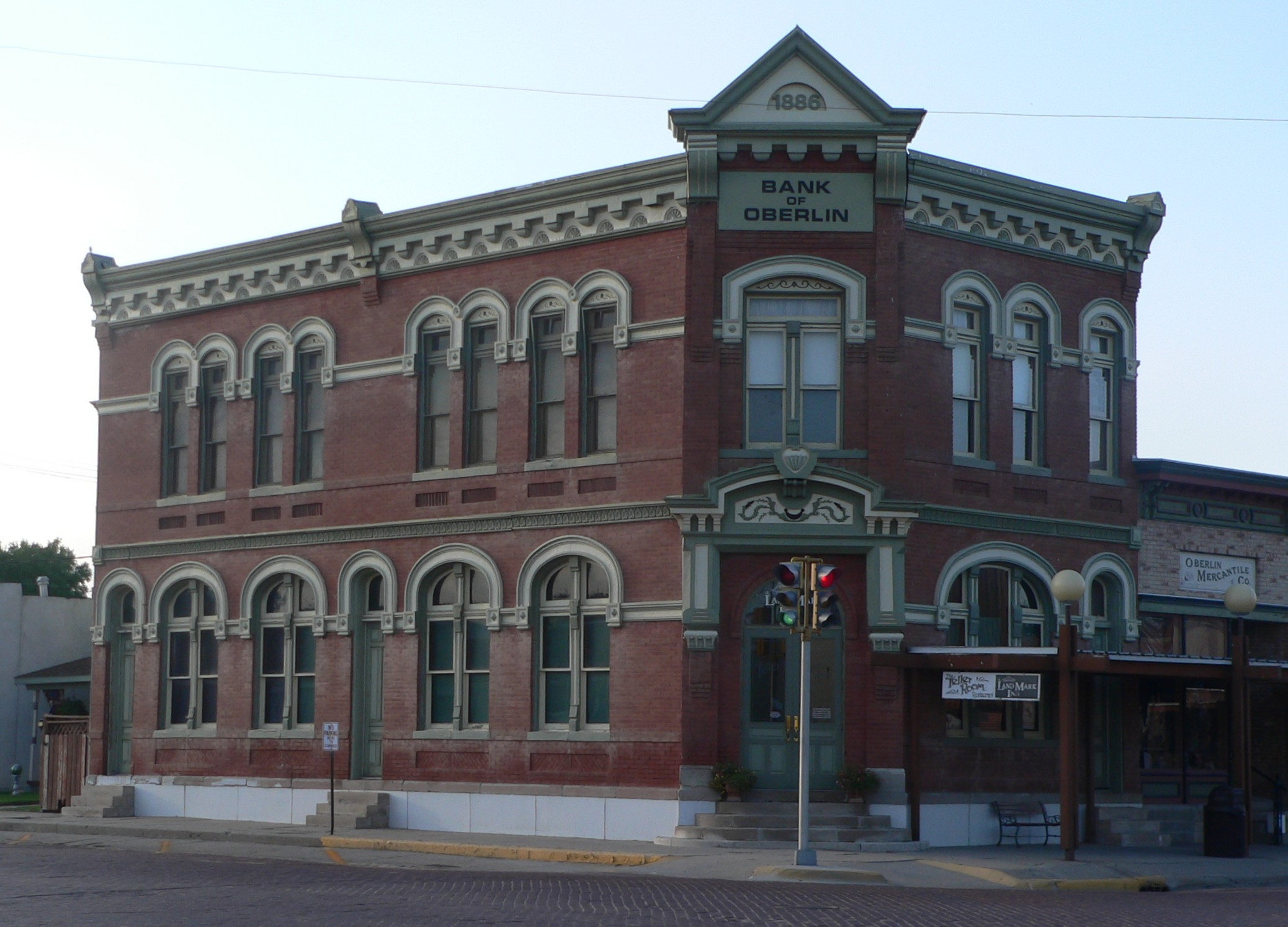 Bank of Oberlin building, in Oberlin, Kansas; seen from the southeast.